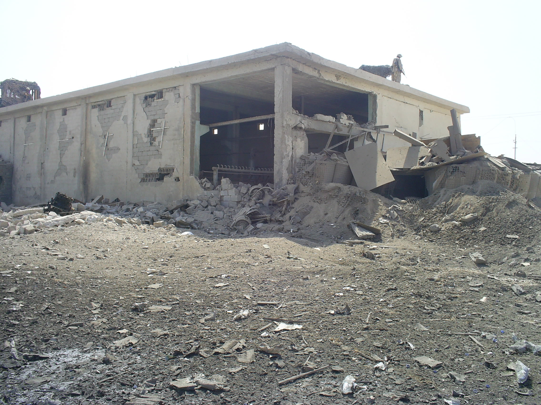 OP 2A After 2005 SVBIED Attack